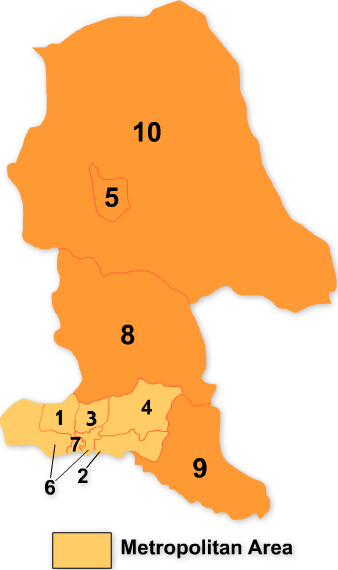 Map of Baotou in Inner Mongolia